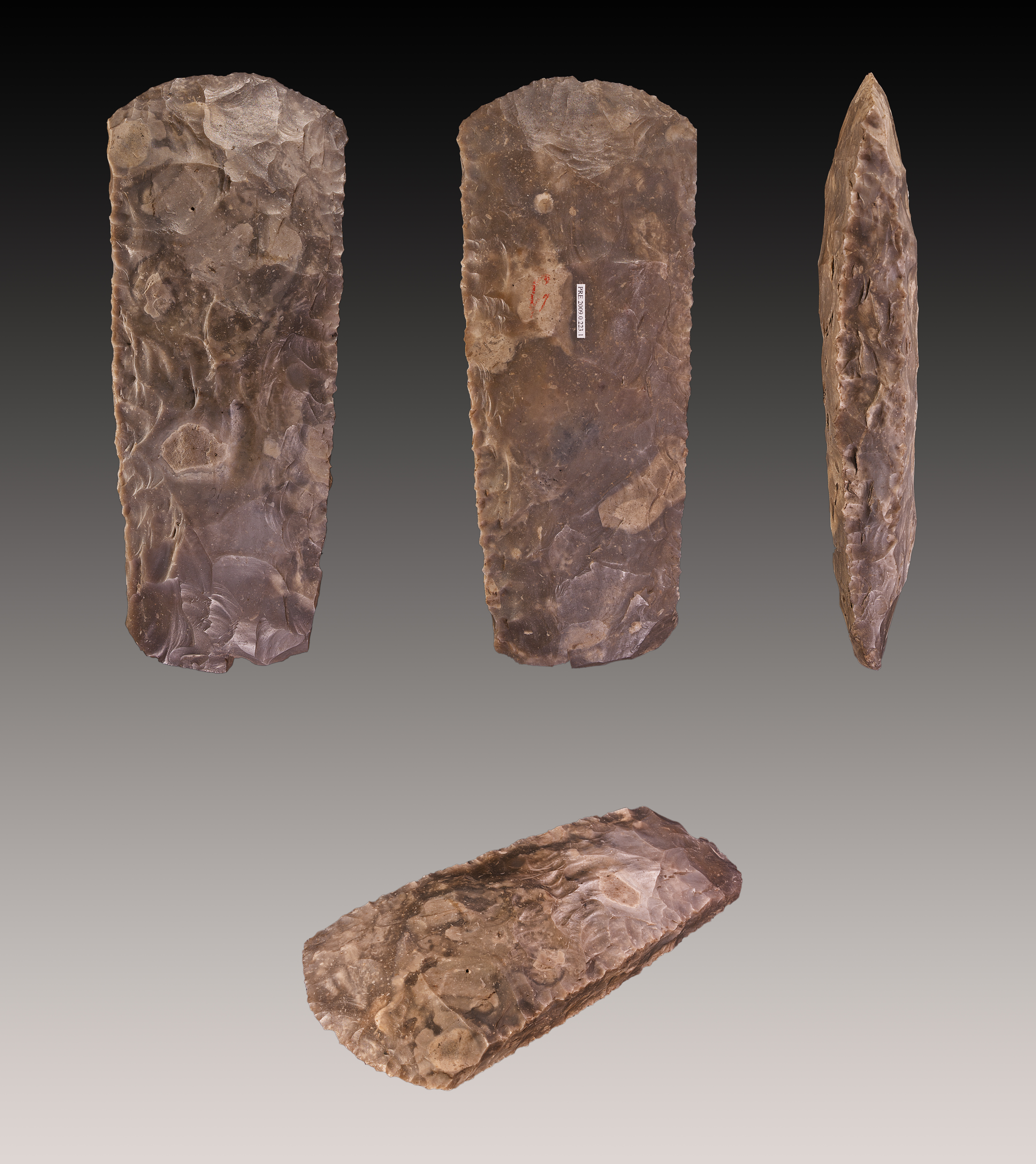 Preform for a polished ax